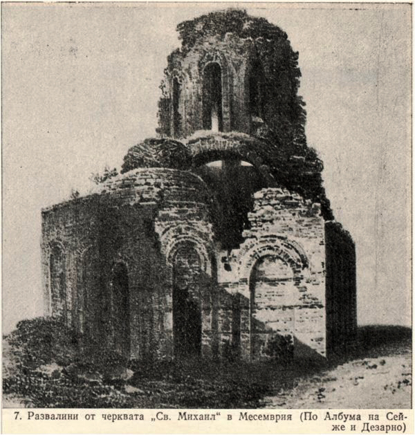 Illustration of the Holy Archangels Michael and Gabriel church in Nesebar, Bulgaria